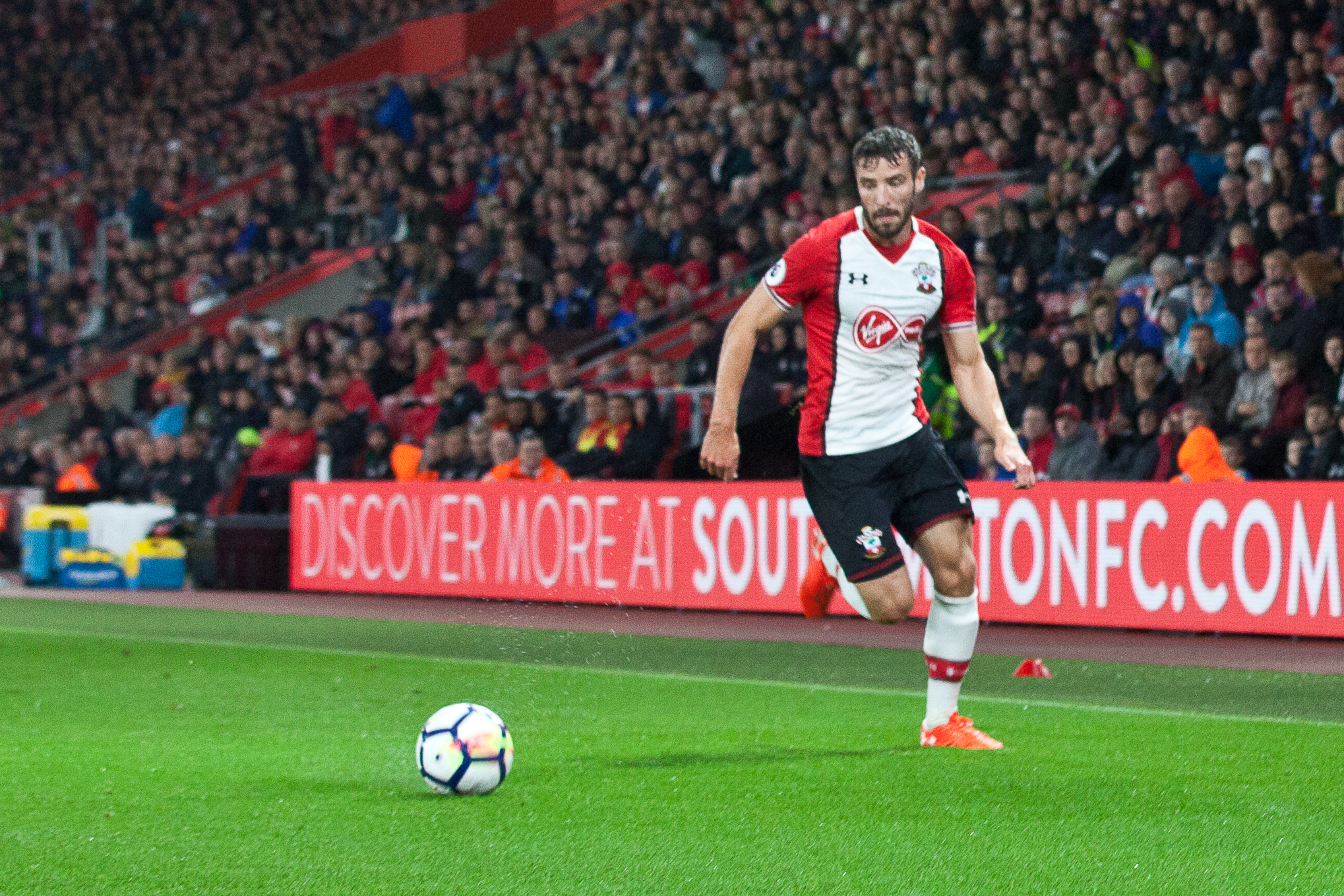 Pre-season friendly Wednesday 2 August 2017 Image by Steve Hogg